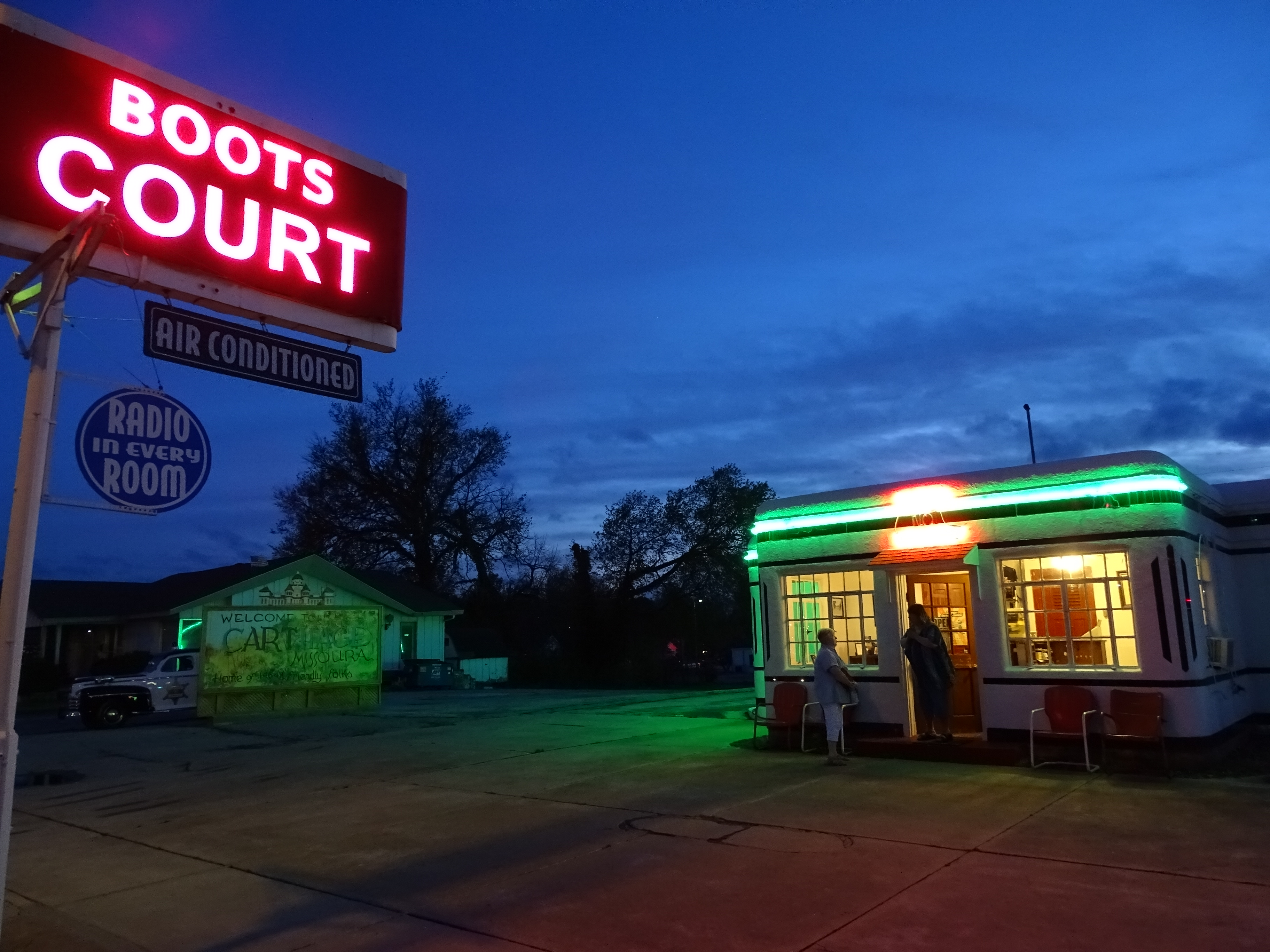 Boots Court Motel - Carthage - Missouri - USA - 02